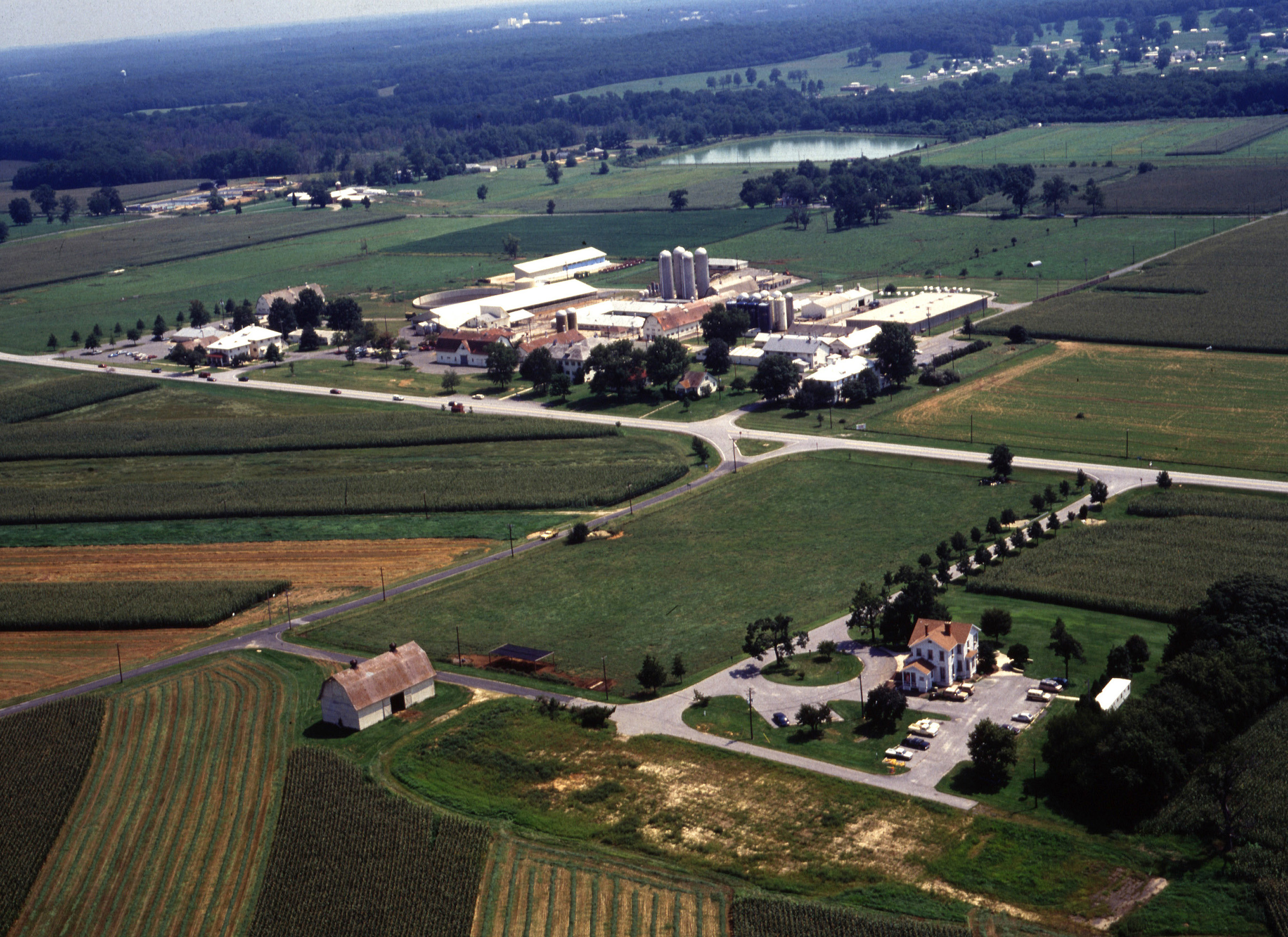 "An east-side view of the Henry A. Wallace Beltsville Agricultural Research Center, circa 1994. The Dairy Research Facility is visible in the middle of the photo."